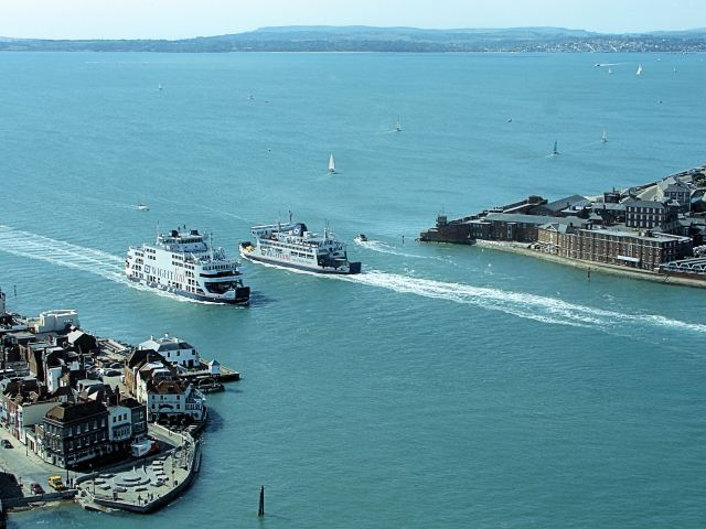 Ferries Passing in the Entrance to Portsmouth Harbour. Taken from the Spinnaker Tower.